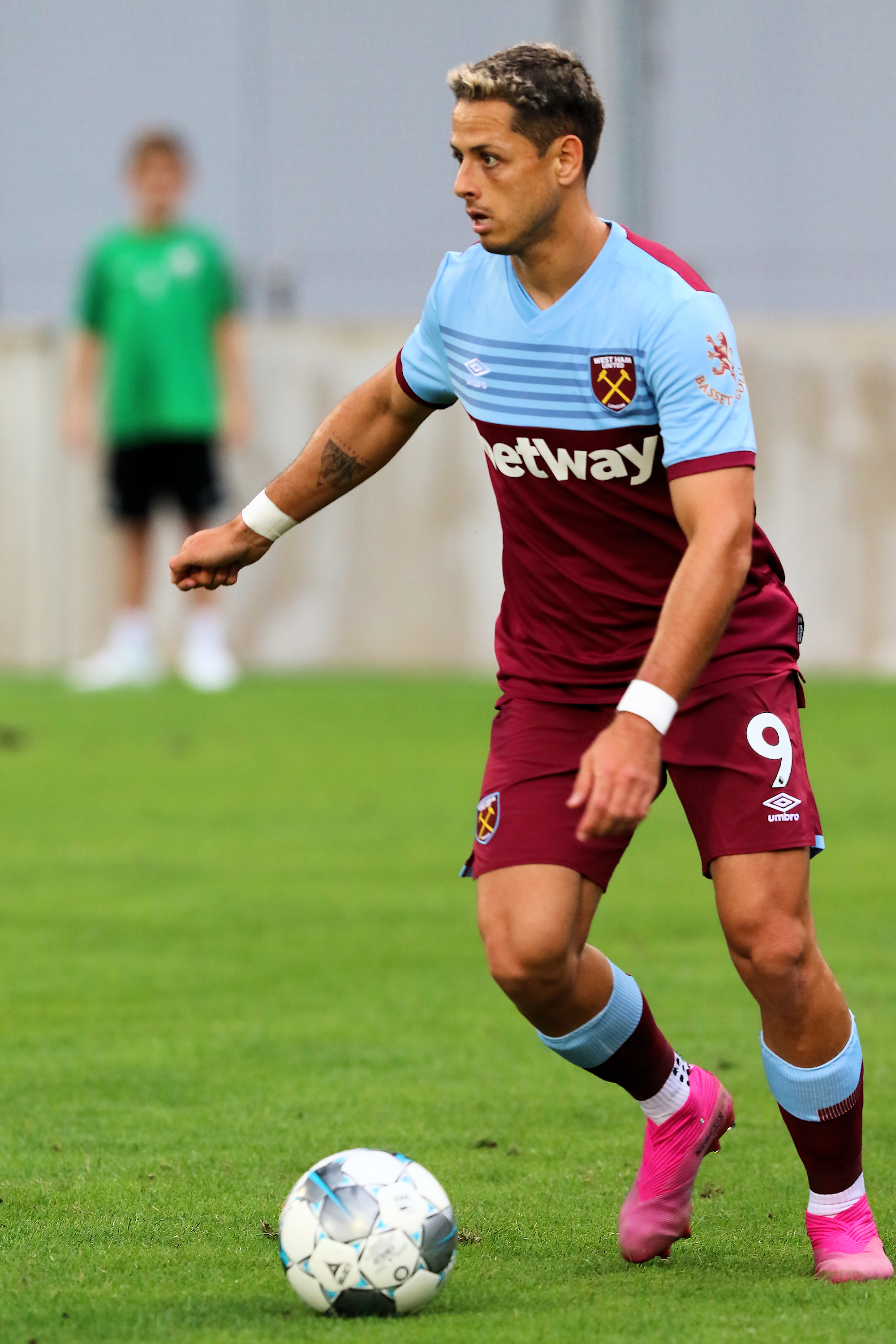 Friendly match Hertha BSC (blue-white shirts) vs. West Ham United (red-blue shirts) at 31-07-2019 3-5 (3-2) in the Sonnenseestadium in Ritzing. – The photo shows Javier Hernández Balcázarz "Chicharito" (West Ham United).